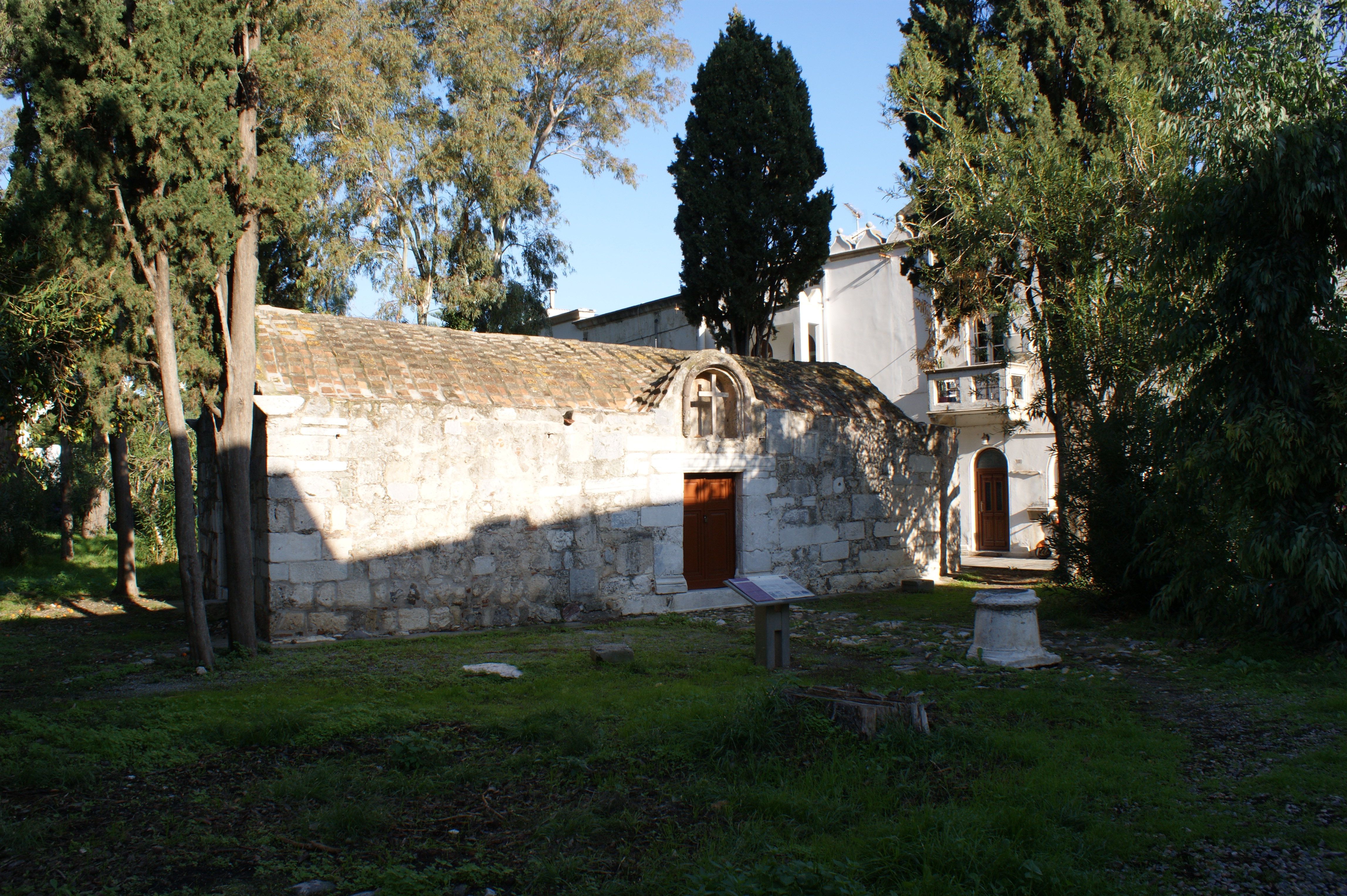 December 2019 in the city of Kos on the Greek island of Kos. Church Virgin Gorgoepikoos